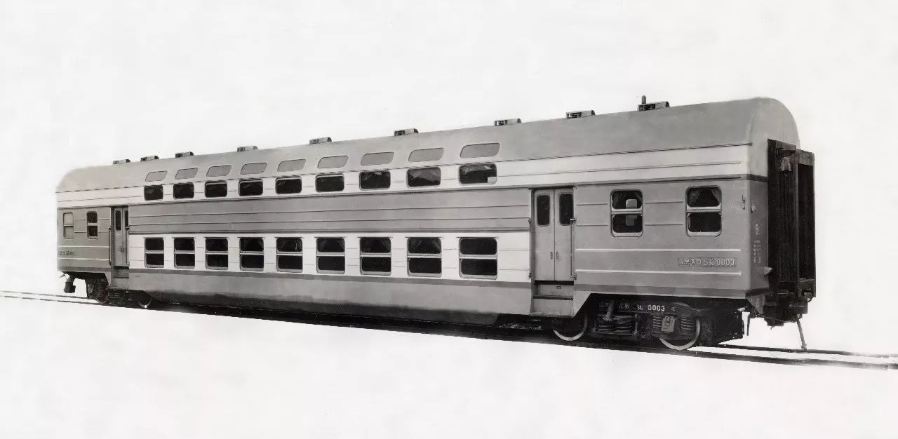 The first double-deck passenger car of China Railways, manufactured in 1958.